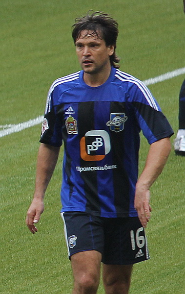 Vadim Evseev